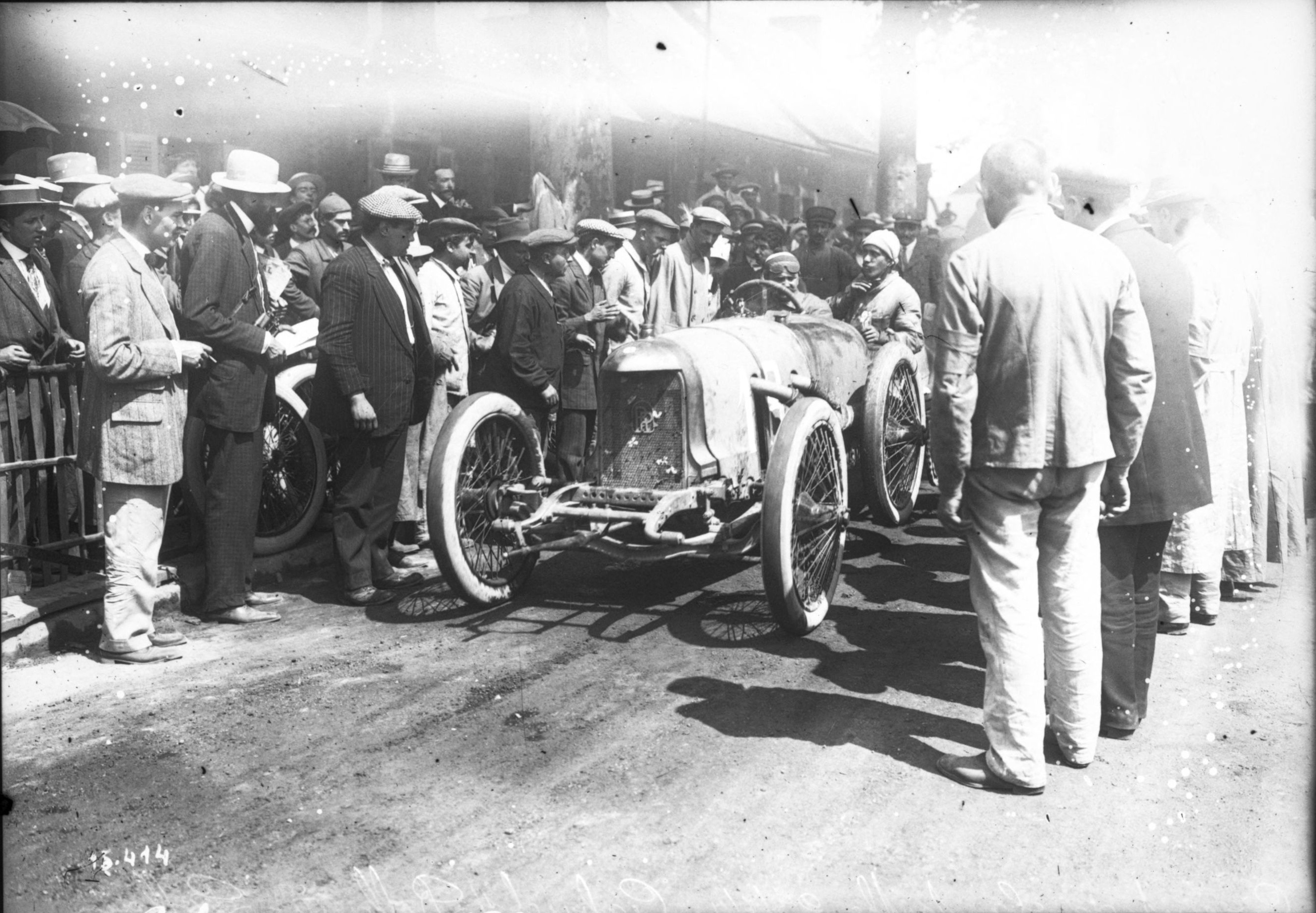 Fernand Gabriel at the 1911 Grand Prix de France at Le Mans.